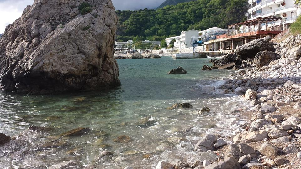 Beautiful picture of beach in Sutomore,Montenegro.